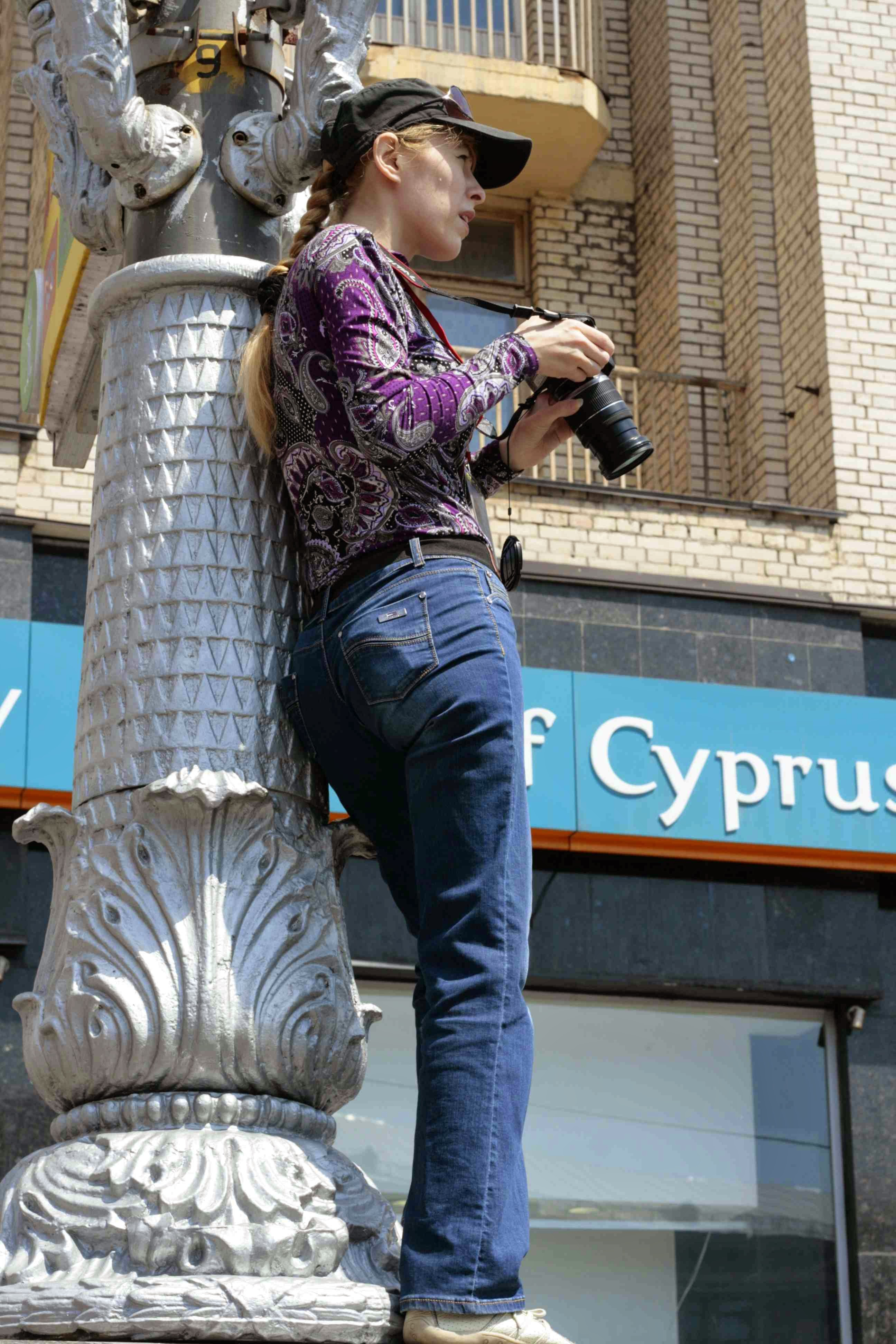 Olena Bilozerska, 18 May 2013.